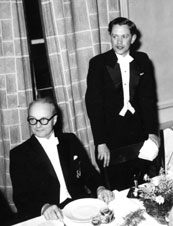 Swedish professors Filip Hjulström (left, 1902-1982) and Åke Sundborg (right, 1921-2007)